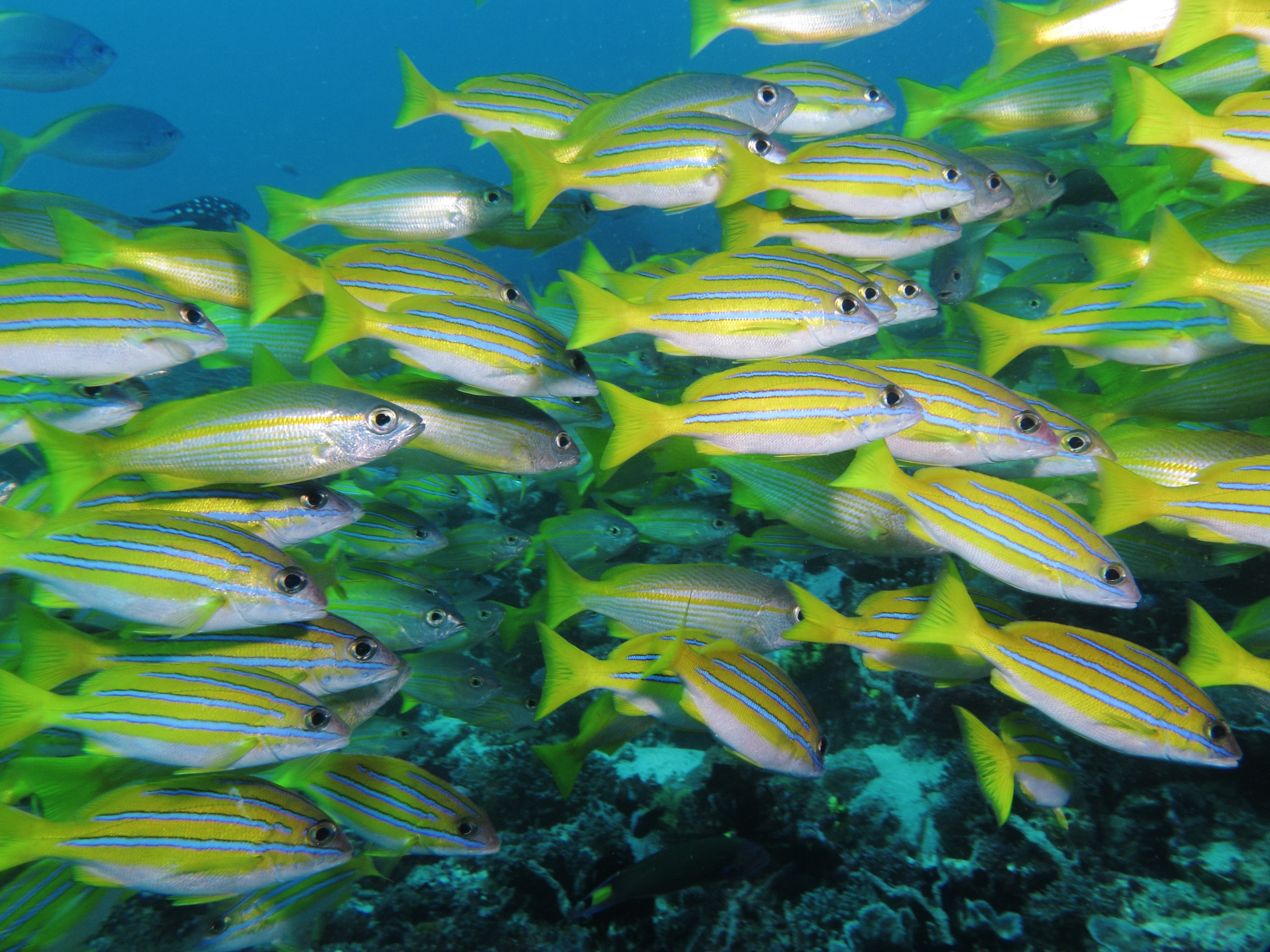 A school of blue-striped snappers (Lutjanus kasmira) with several big-eye snappers (Lutjanus lutjanus) at Manta Alley (near Komodo, Indonesia)